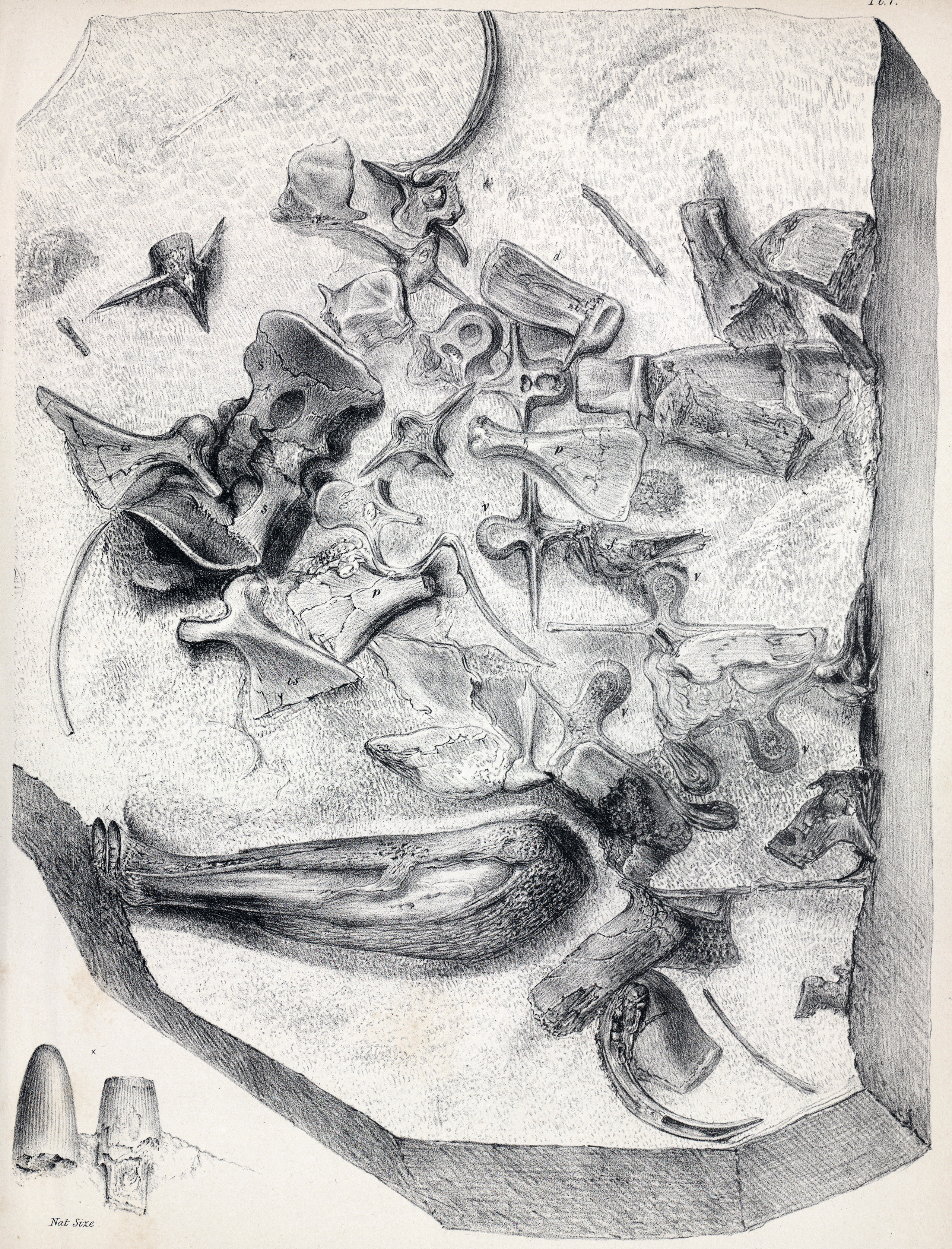 Crocodilia.—Goniopholis crassidens holotype BMNH 3798. Reduced view of a slab of Purbeck Limestone, including parts of the skeleton. A figure of the two teeth retained in the portion of mandible is subjoined, of the natural size. From the Purbeck of Swanage, Dorsetshire.